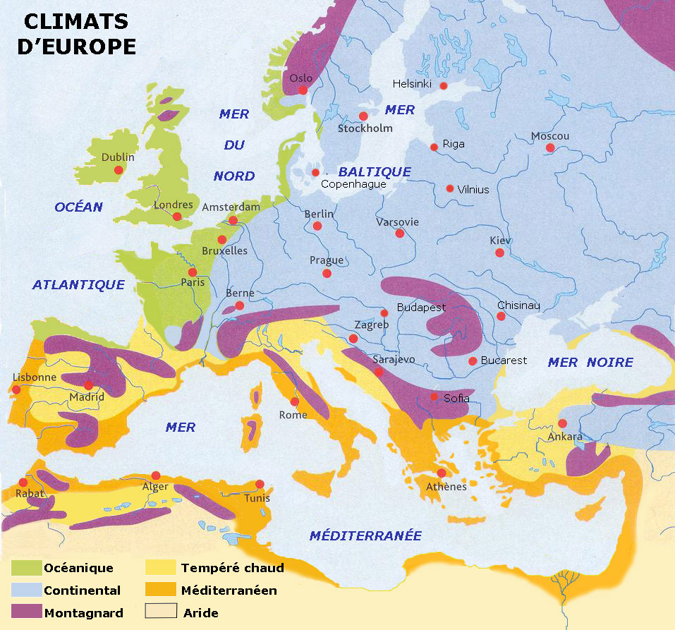 Climatic map of Europe (french)